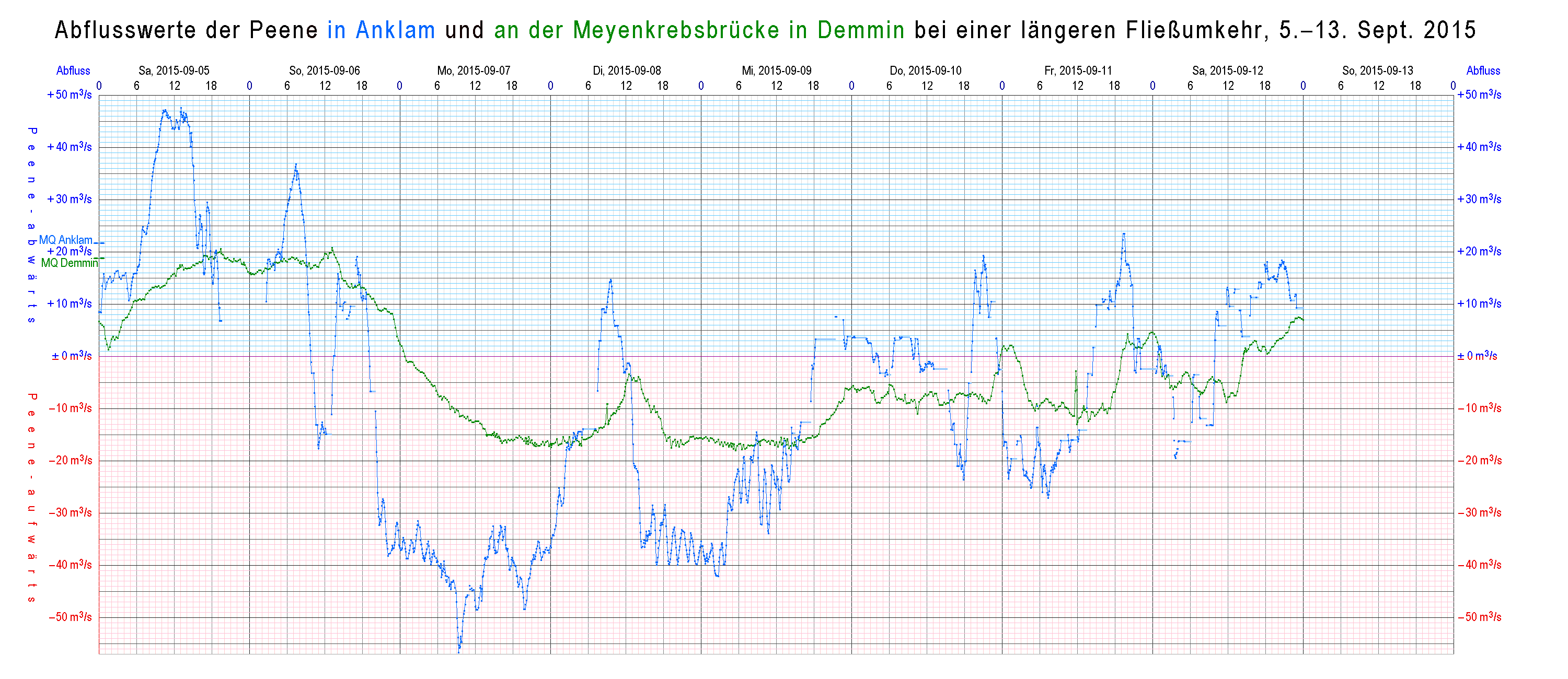 Flows at Meyenkrebsbrücke in Demmin during a phase of reverse flow in September 2015